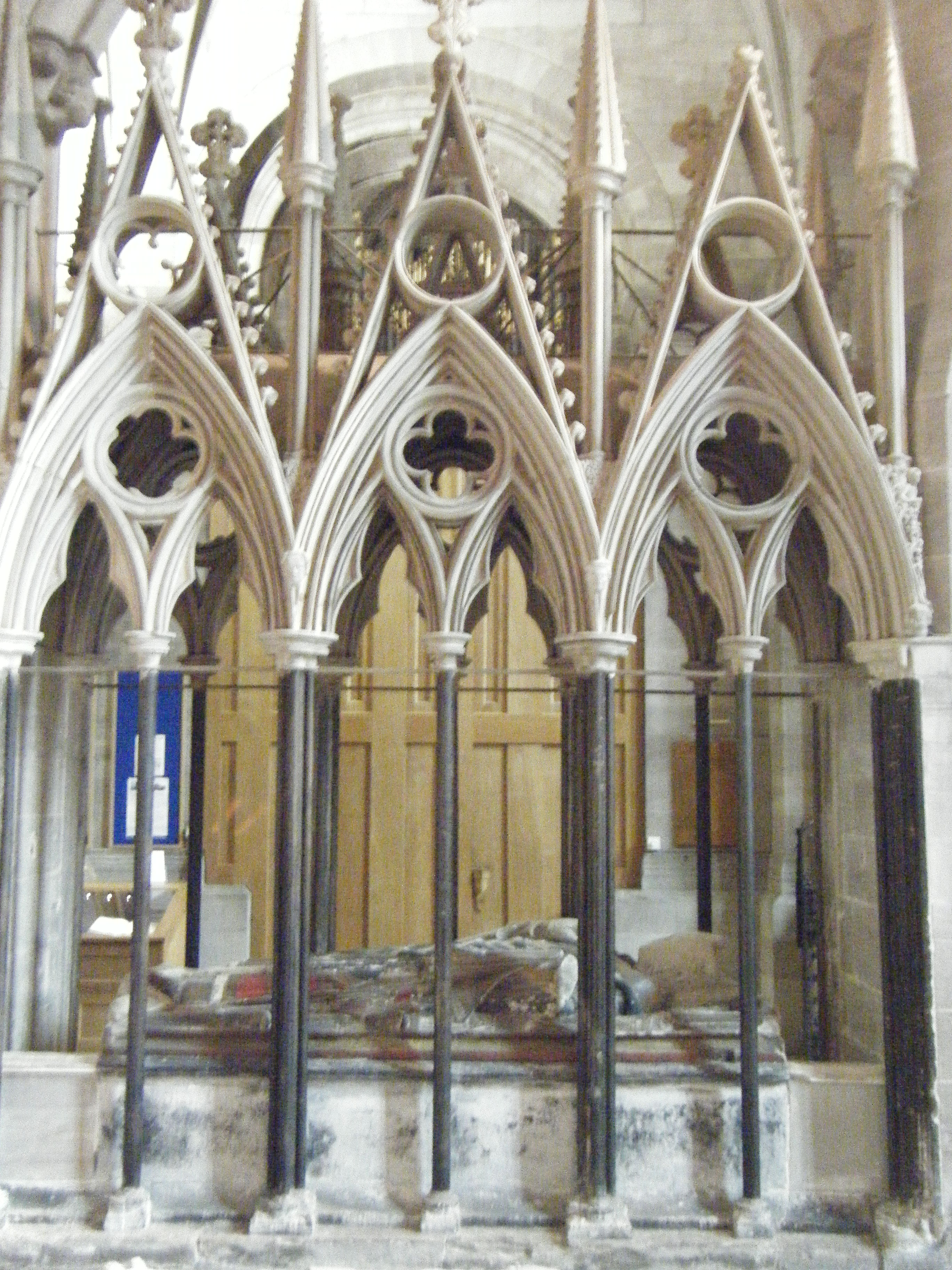 The canopied monument to Bishop Aigueblanche (Aquablanca), 1268, one of the earliest and finest of its type in Britain, at Hereford Cathedral, 06/12.